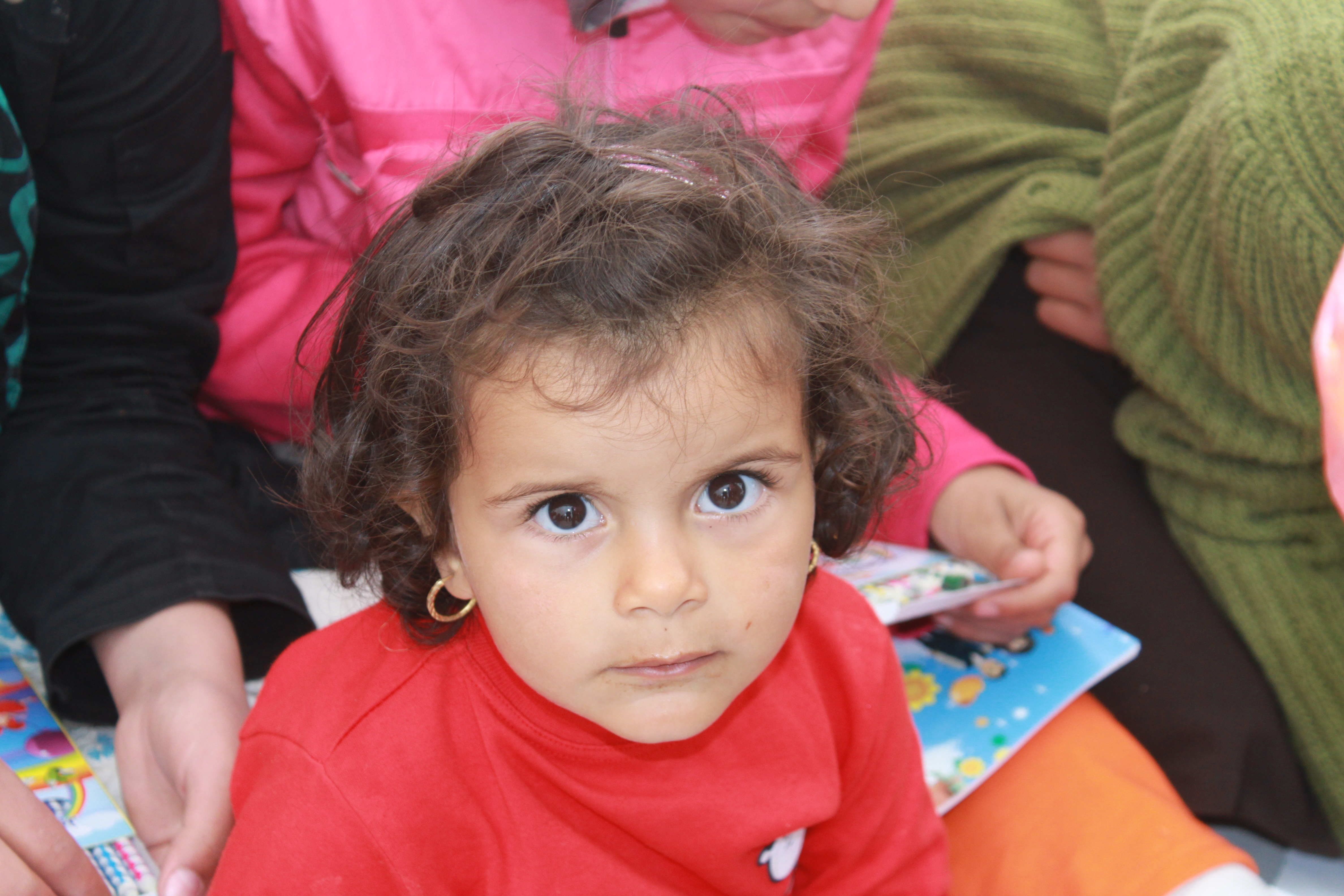 The 2012 East Azerbaijan earthquakes occurred near the cities of Ahar and Varzaqan in Iran's East Azerbaijan Province, on August 11, 2012, at 16:53 Iran Standard Time. The two quakes measured 6.4 and 6.3 on the moment magnitude scale, and were separated by eleven minutes. The epicenter of the earthquakes was 60 kilometers (37 miles) from Tabriz.